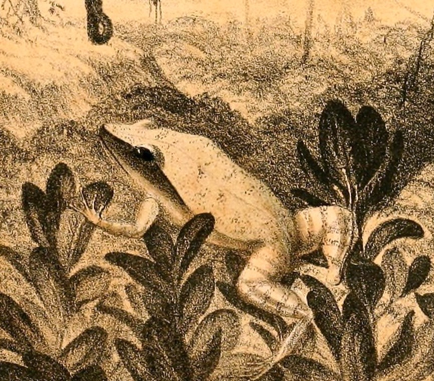 Litoria luteola = Eleutherodactylus luteolus